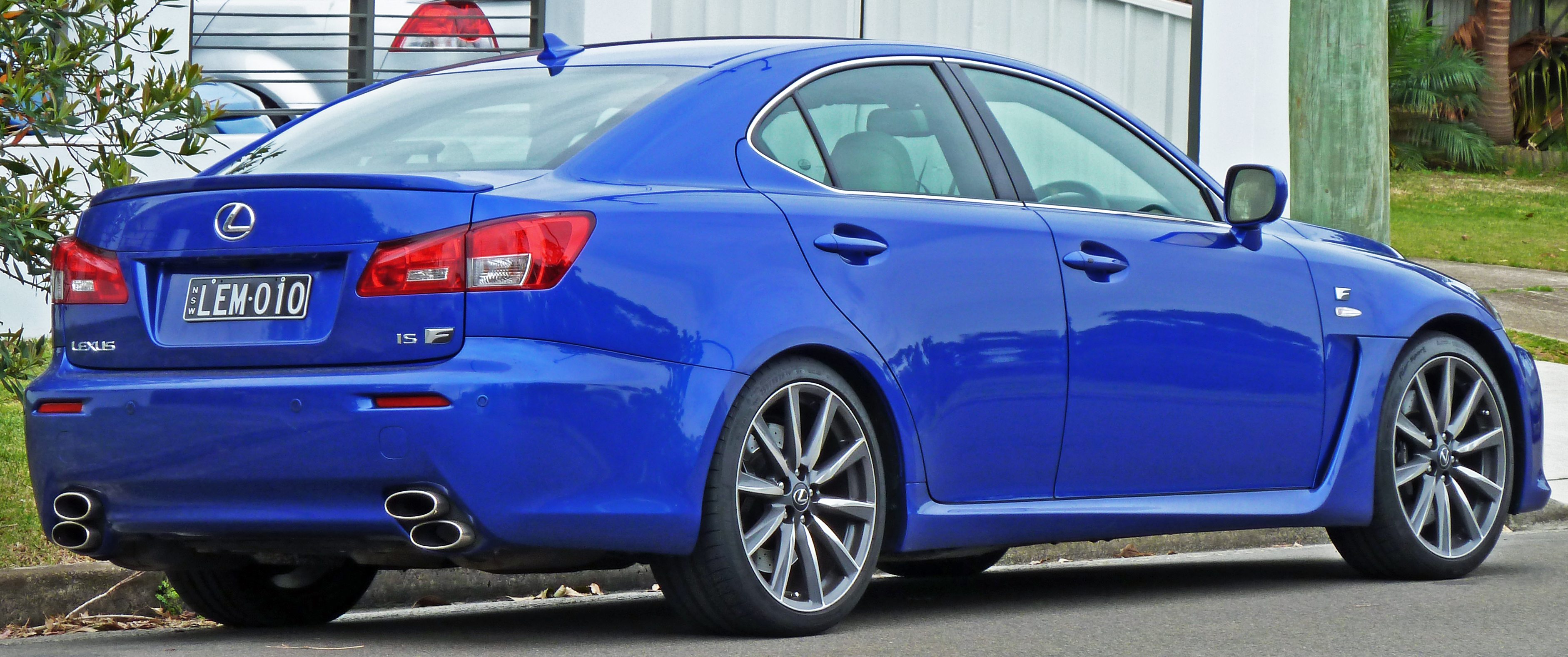 2008–2010 Lexus IS F (USE20R) Sports Luxury sedan. Photographed in Sans Souci, New South Wales, Australia.